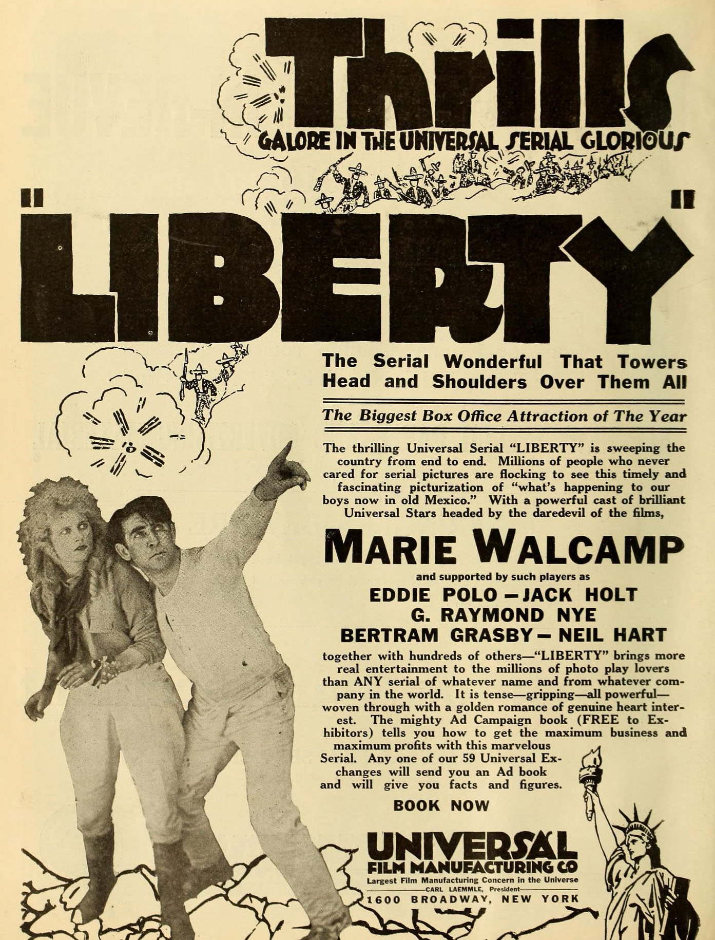 Advertisement in Moving Picture World for the film serial Liberty (1916).